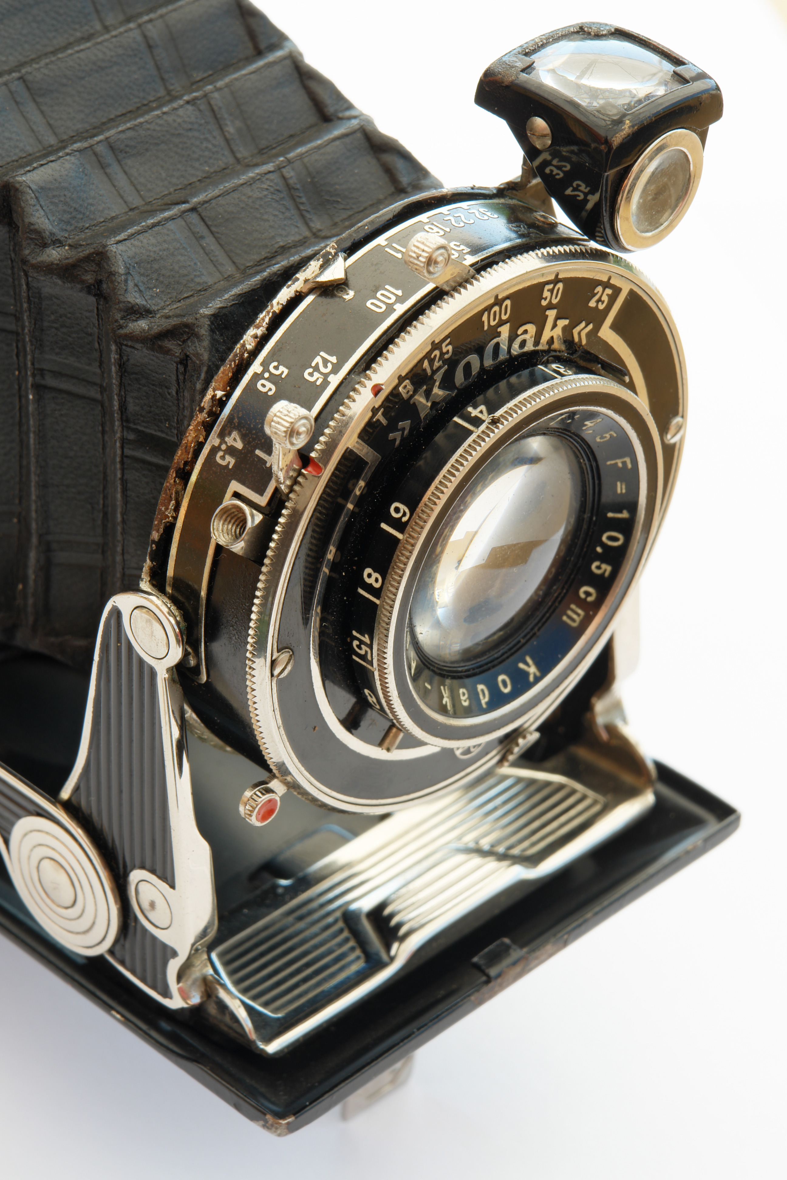 Kodak Vollenda 620 camera, built in the 1930s.